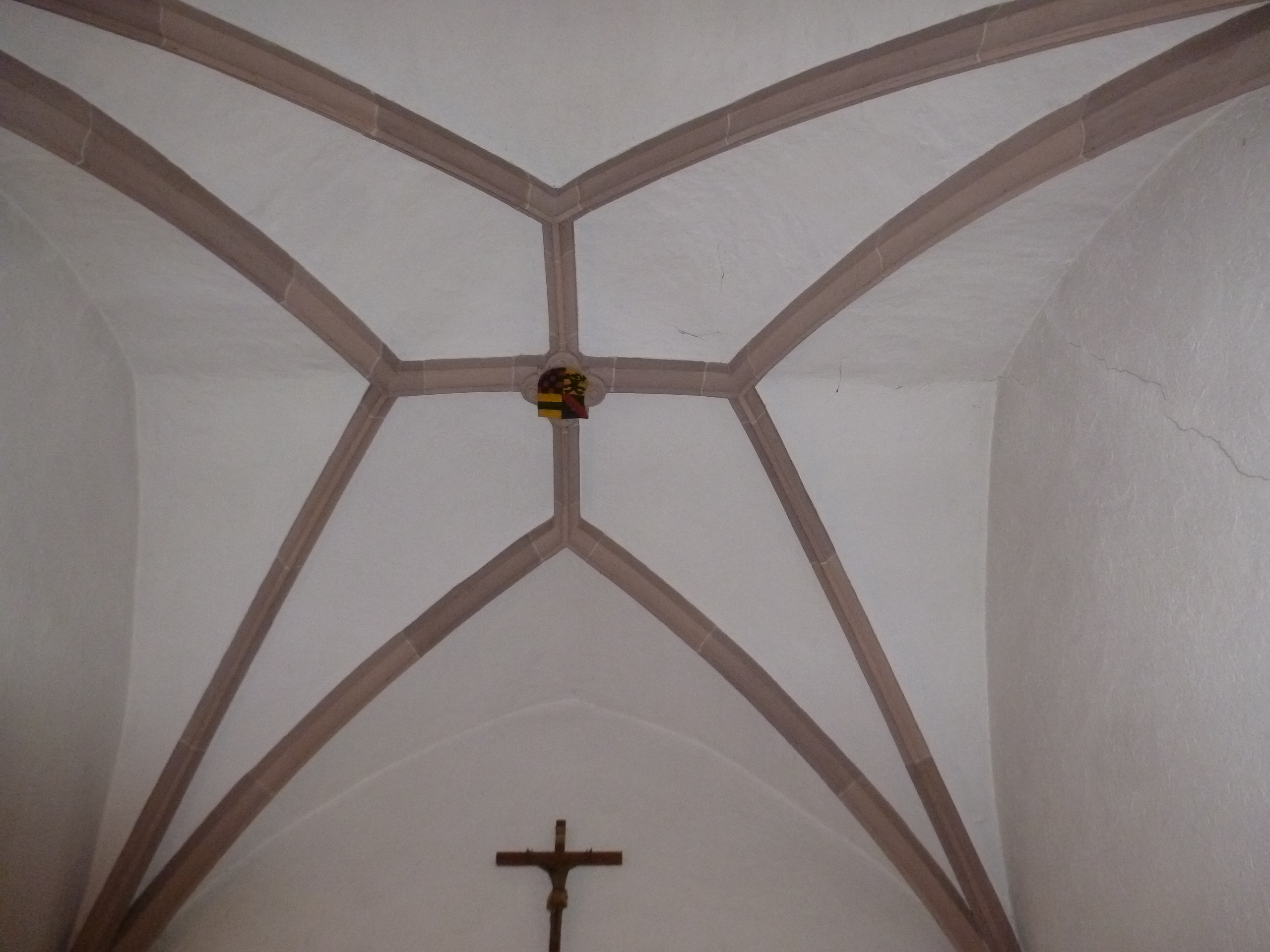 Vault of old (east) tower of church St. Nikolaus (Ichenheim, Neuried, Baden-Württemberg, Germany)